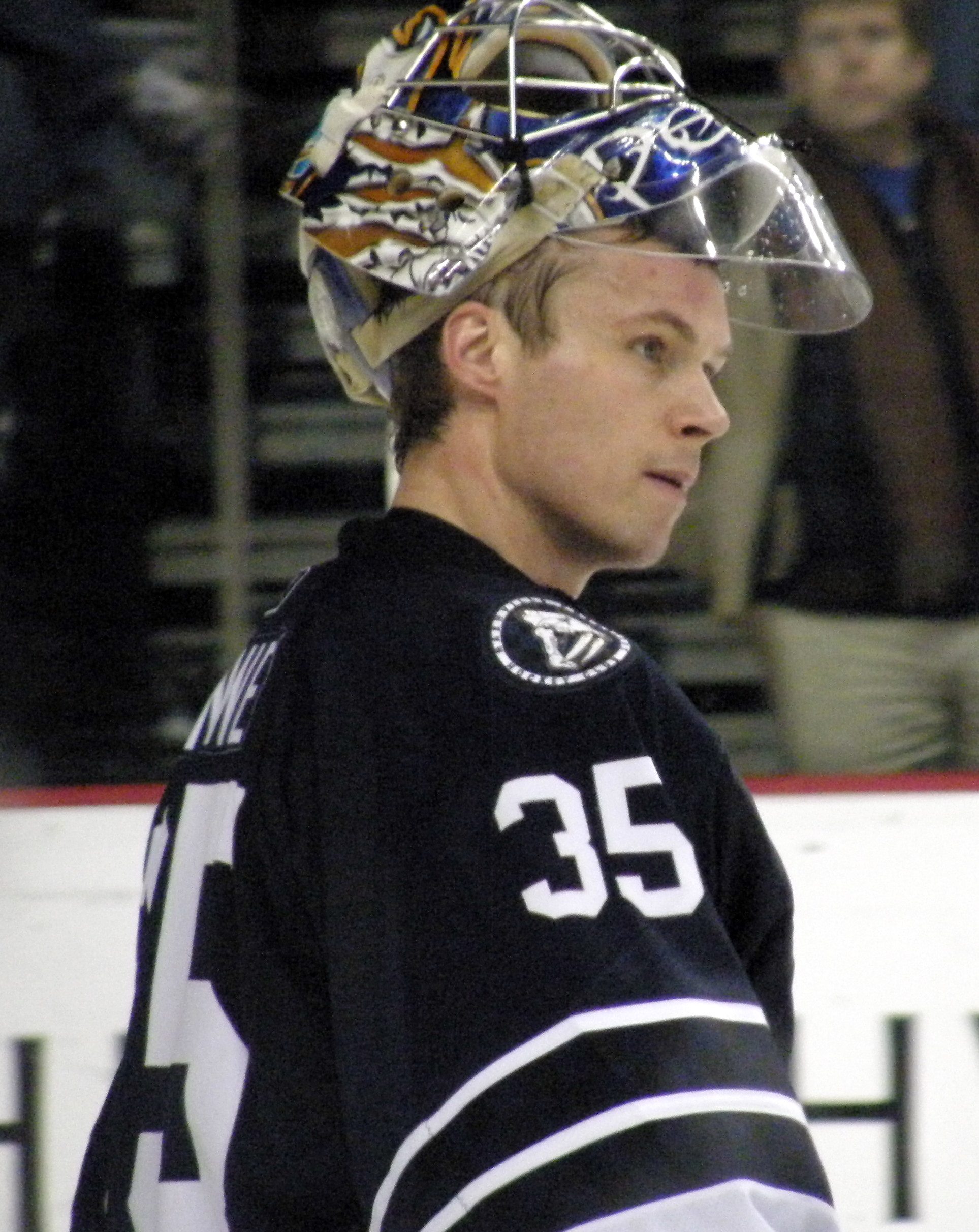 35, Pekka Rinne, G, NSH, San Jose Sharks at Nashville Predators, February 6, 2010